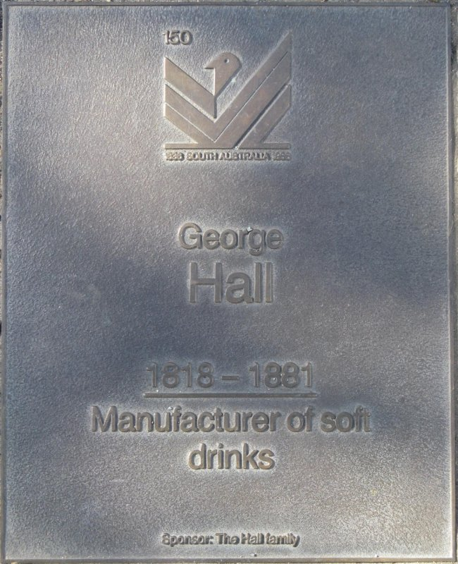 Jubilee 150 Walkway Plaque commemorating George Hall